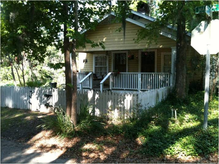 House on Marvin St. in the last remaining section of Smokey Hollow in Tallahassee, FL. Home built in 1948. Photo circa 2011.